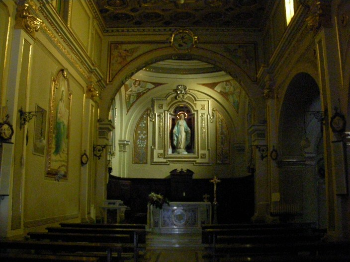 The inside of the church of Saint Mariadegli Angeli of Atessa